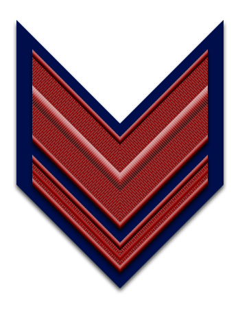 insignia for the sleeves of the rank of senior airman of the Italian Air Force